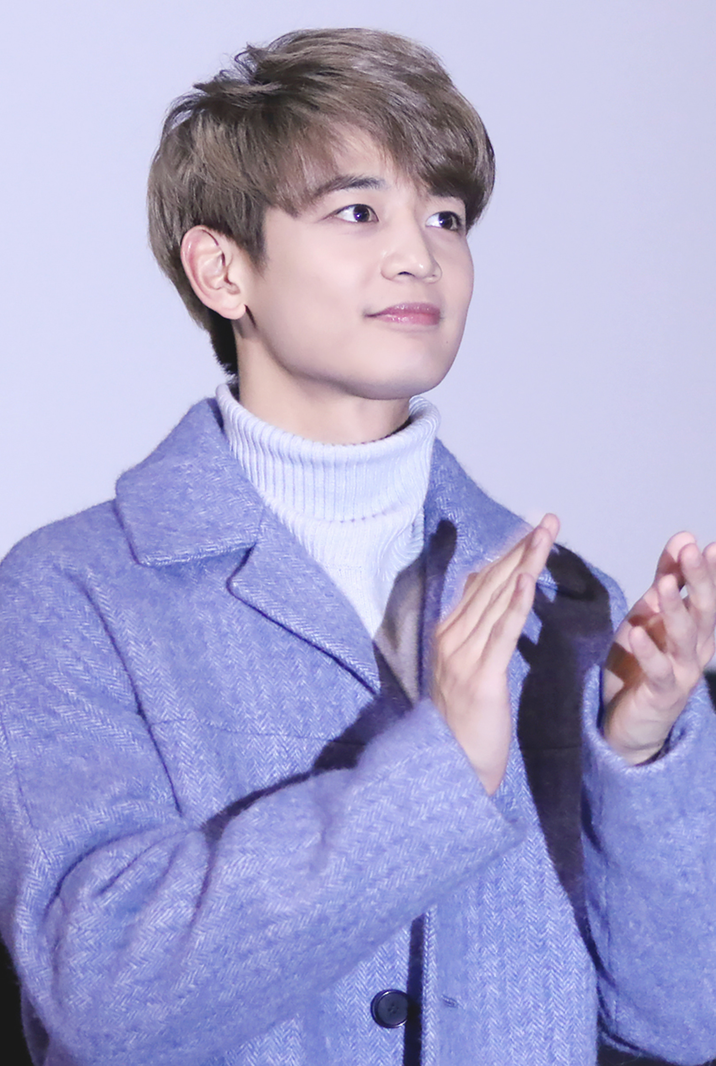 Choi Min-ho at the press conference of the movie "Derailed" at the Megabox Coex Mall in Seoul on November 29, 2016.